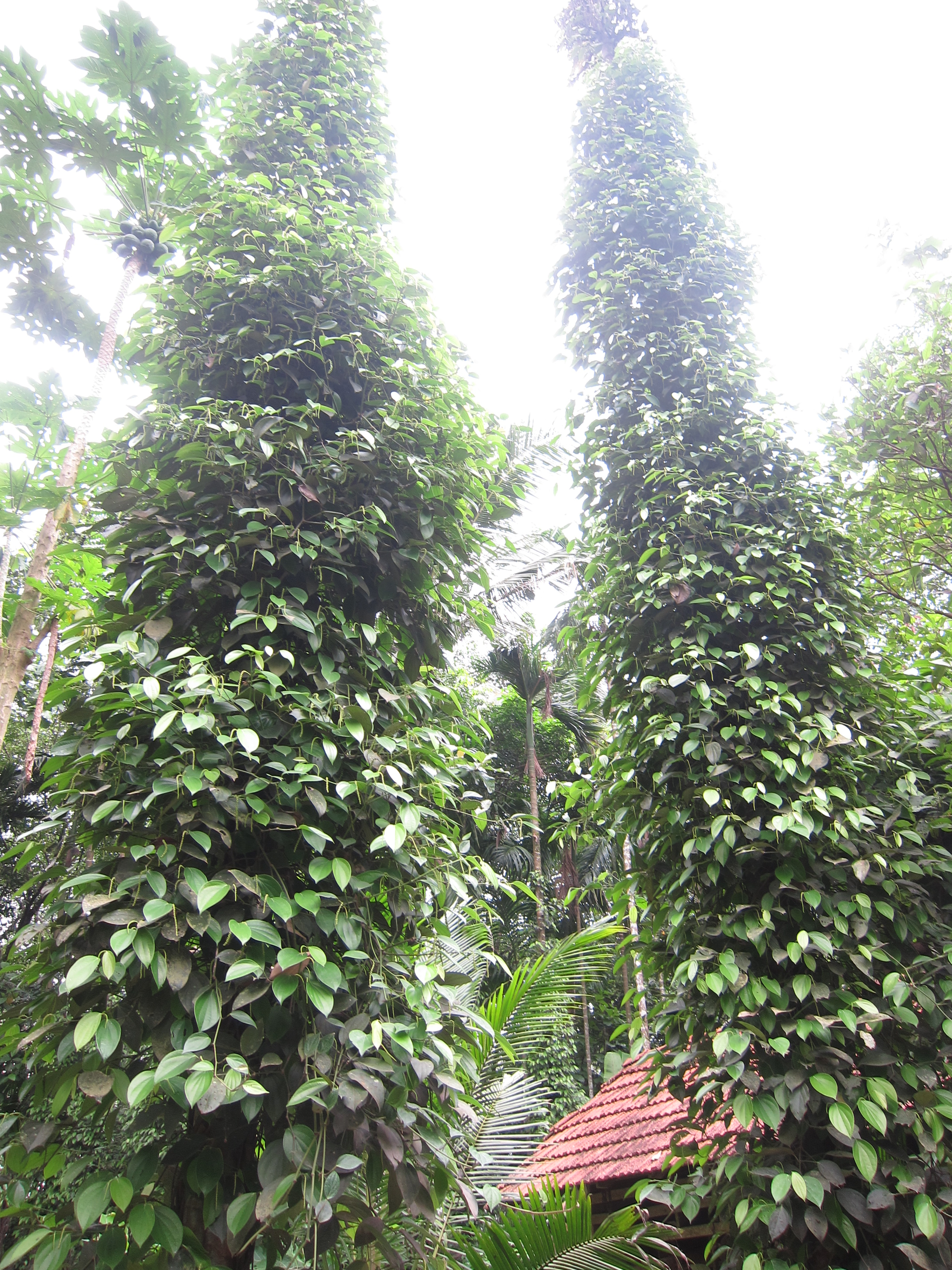 Pepper Piper nigrum കുരുമുളക് കറുത്തപൊന്ന്